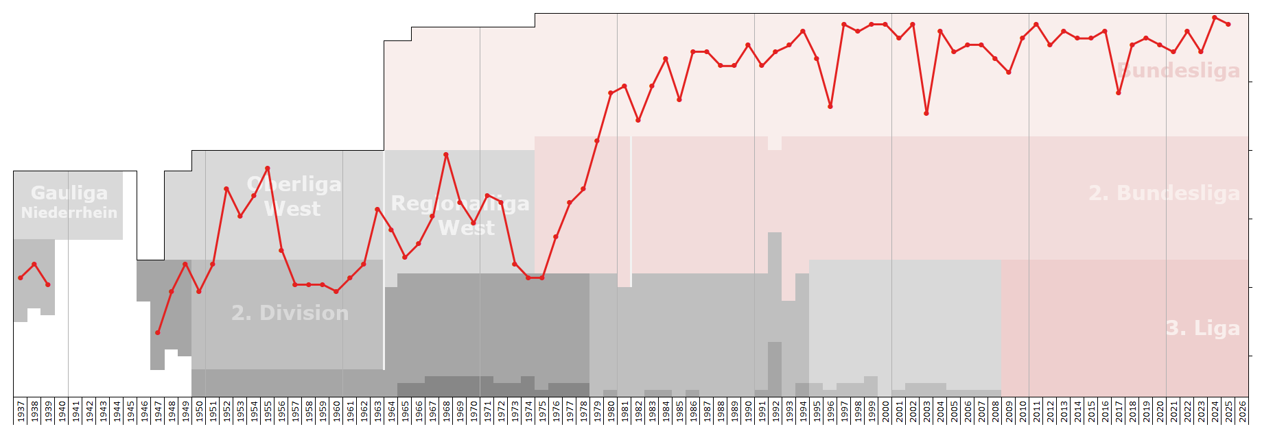 Chart of end-season table positions of Bayer Leverkusen in the football league system of Germany. Data source: RSSSF, wikipedia, f-archiv.de, fussball.de